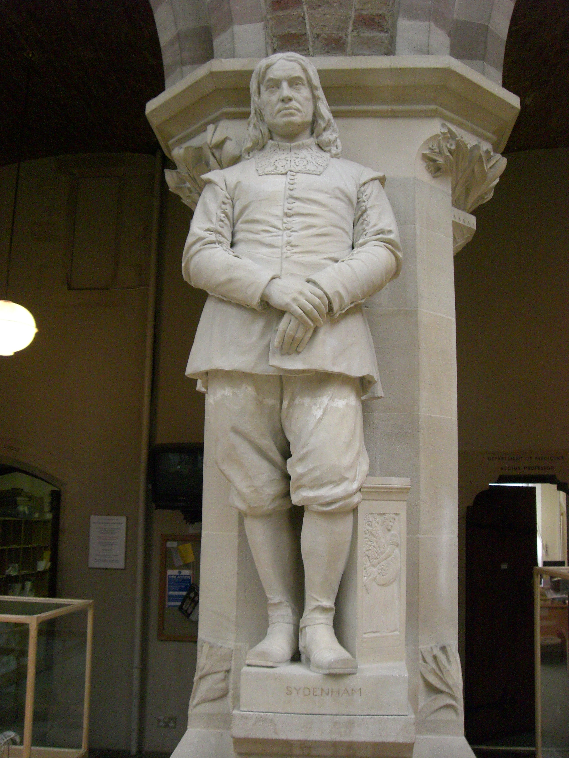 Statue of Thomas Sydenham at the Oxford University Museum of Natural History